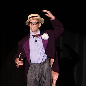 Small image of Bill Irwin performing